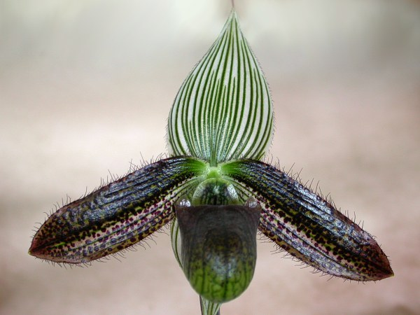 Paphiopedilum